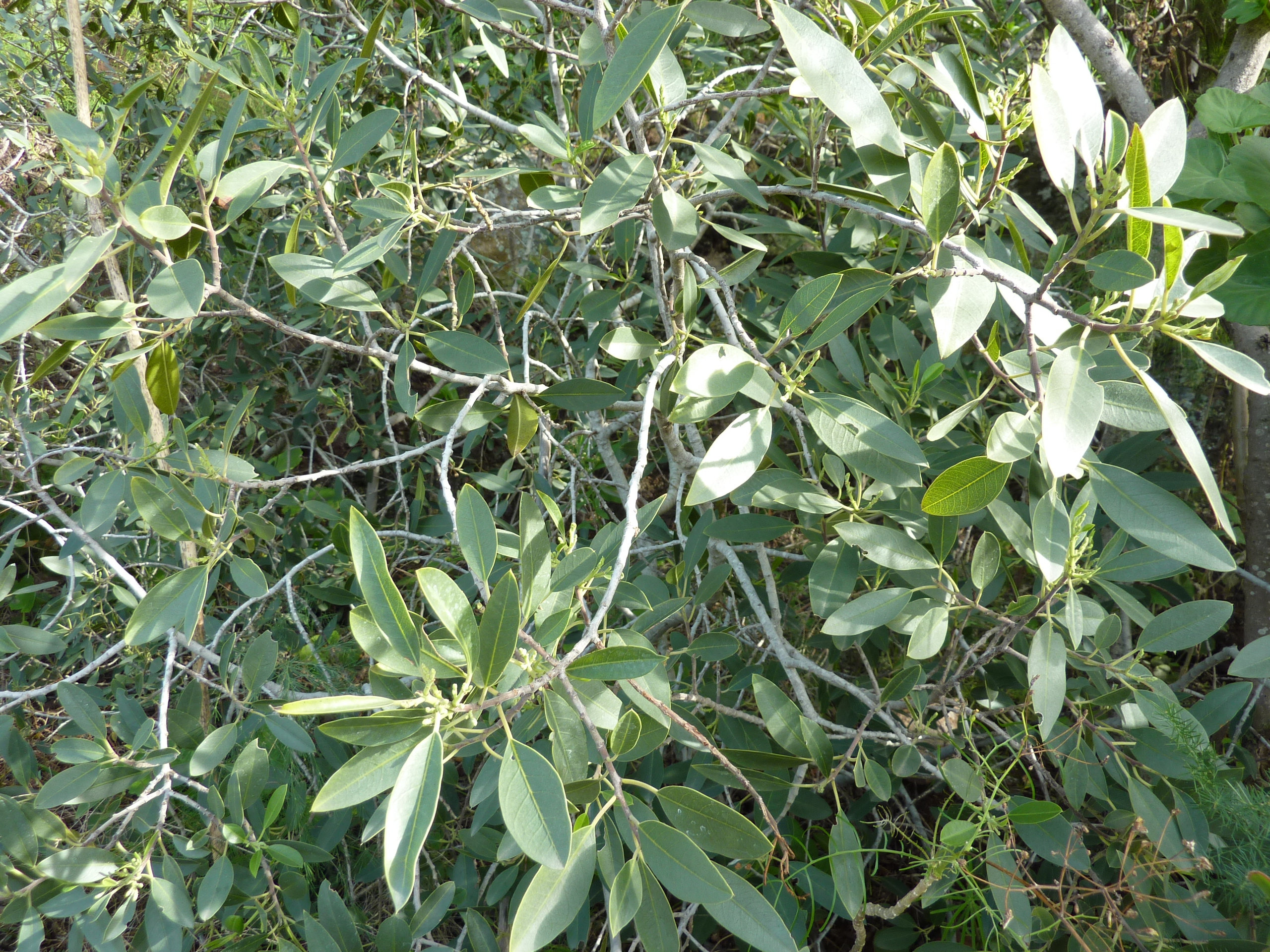 Rhamnus integrifolia growing in the Jardín Botánico Canario Viera y Clavijo.